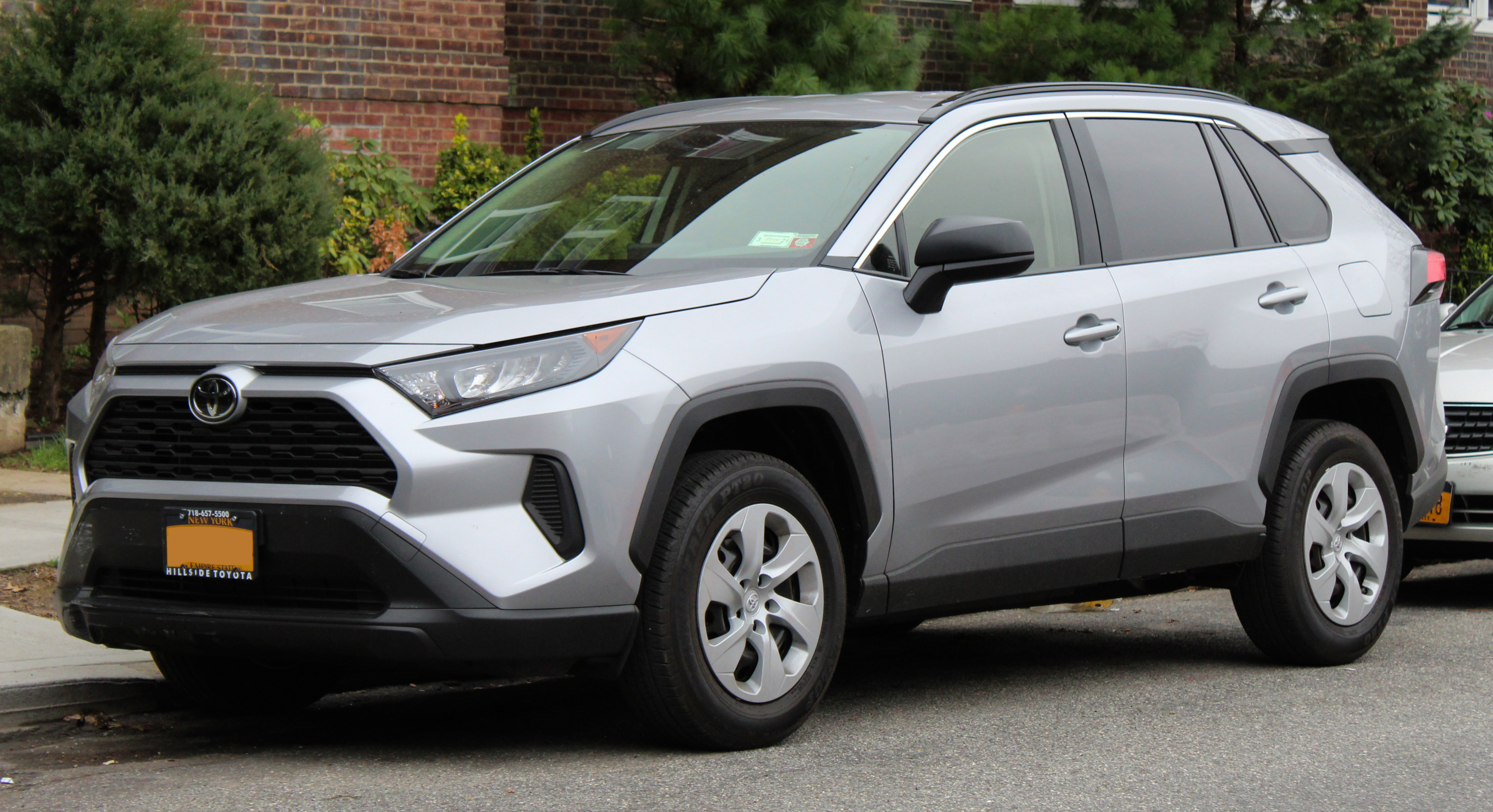 A 2019 Toyota RAV4 photographed in Kew Gardens Hills, Queens, New York, USA